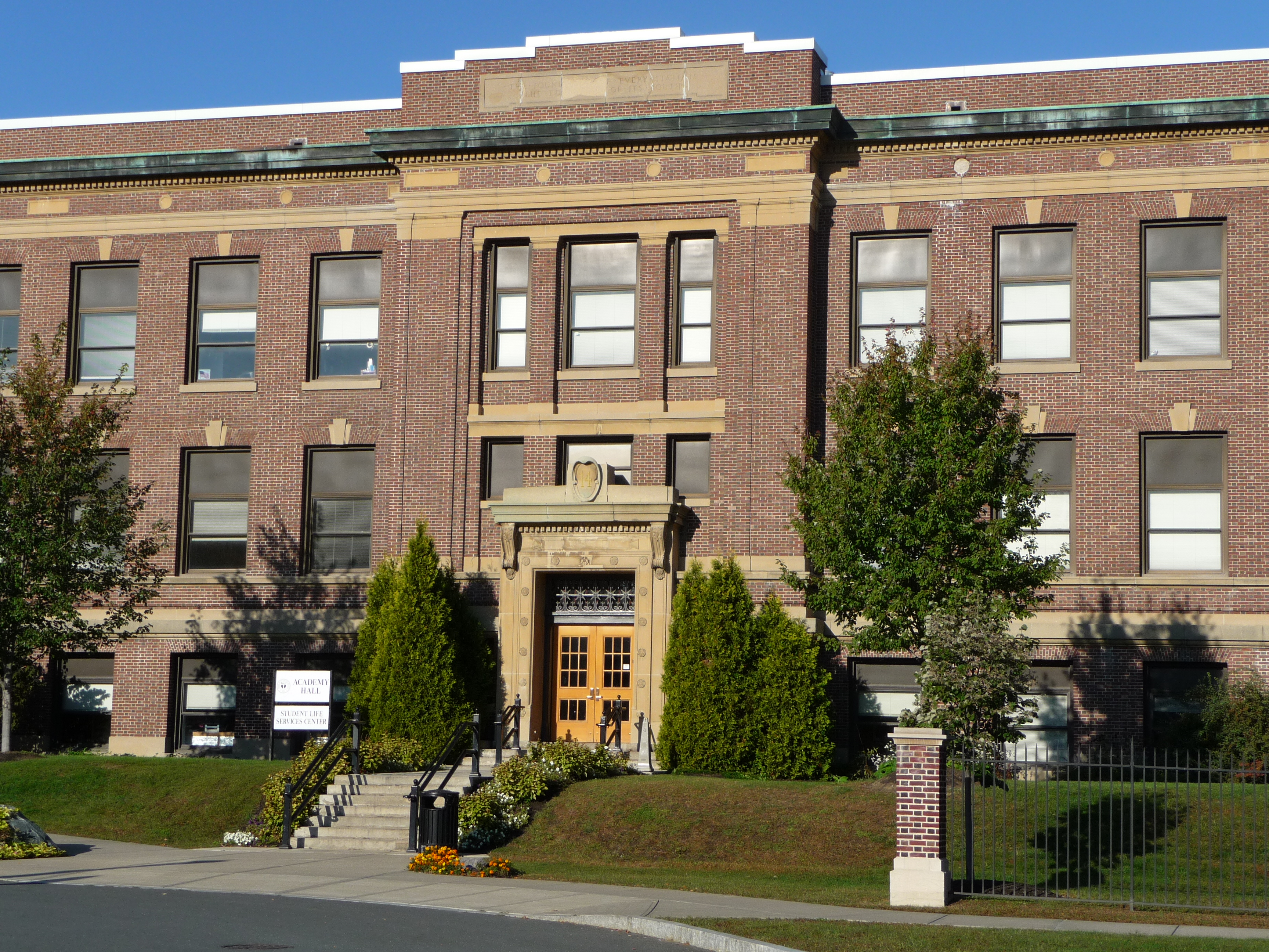 Academy Hall, on the campus of Rensselaer Polytechnic Institute in Troy, New York